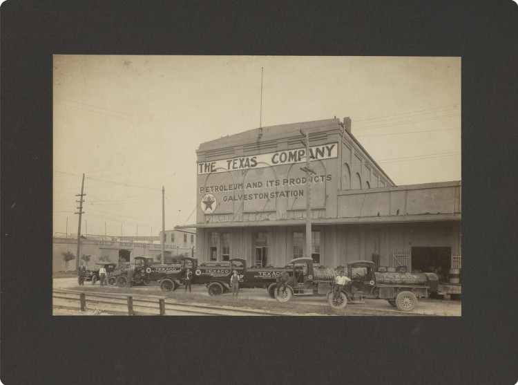 Title: [The Texas Company, Galveston, Texas] Creator: Unknown Date: ca. 1910-1920 Part Of: Lawrence T. Jones III Texas photography collection Physical Description: 1 photographic print: gelatin silver; 12.9 x 20.3 cm. on 22.8 x 28.0 cm. mount File: ag2008_0005_4_2_4_03_texas_opt.jpg Rights: Please cite DeGolyer Library, Southern Methodist University when using this file. A high-resolution version of this file may be obtained for a fee. For details see the web page. For other information, . For more information, View the Lawrence T. Jones III Texas Photographs at